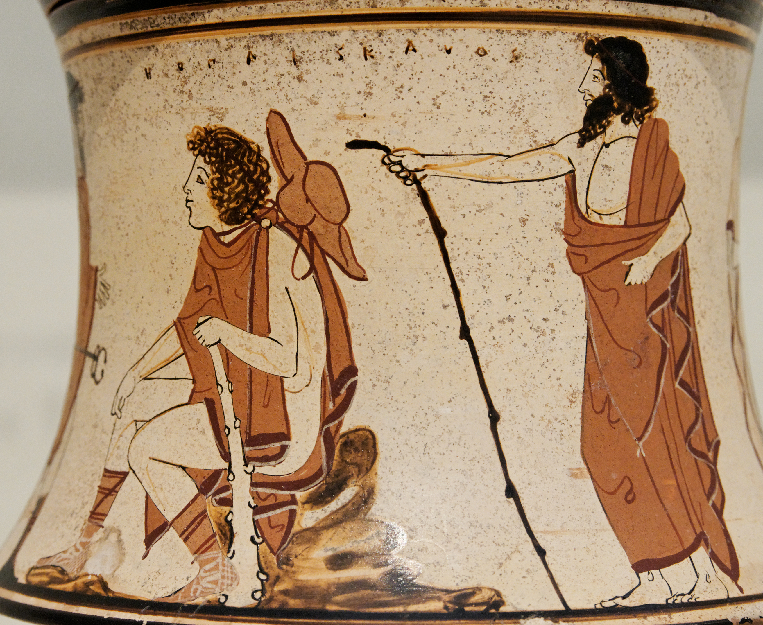 The Judgement of Paris: here Paris on the left and an old man (Priam? according to Beazley) on the right; kalos inscription. Attic white-ground pyxis with lid.